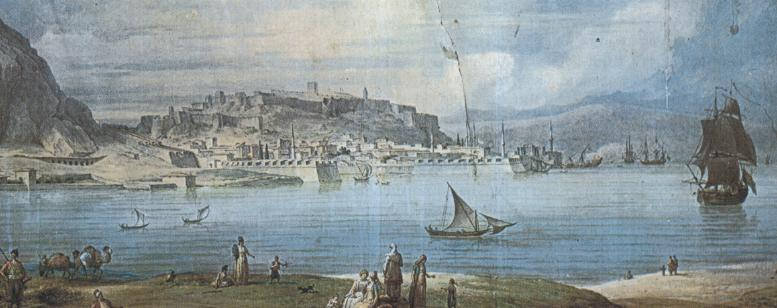 Depiction of Nafplion, first capital of the free Greek State, during the ages of the War for Independence.